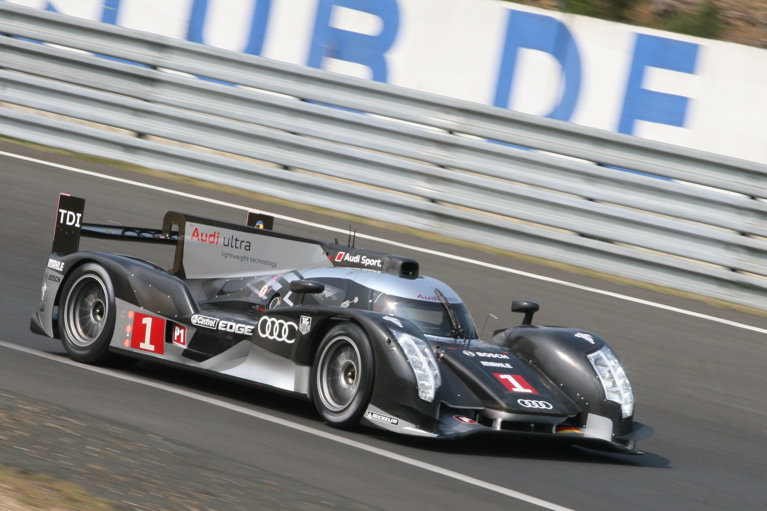 Audi R18 at the Le Mans Pretest 2011 at the Esses